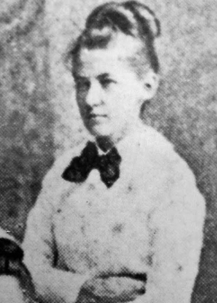 photo of Elizabeth King Ellicott